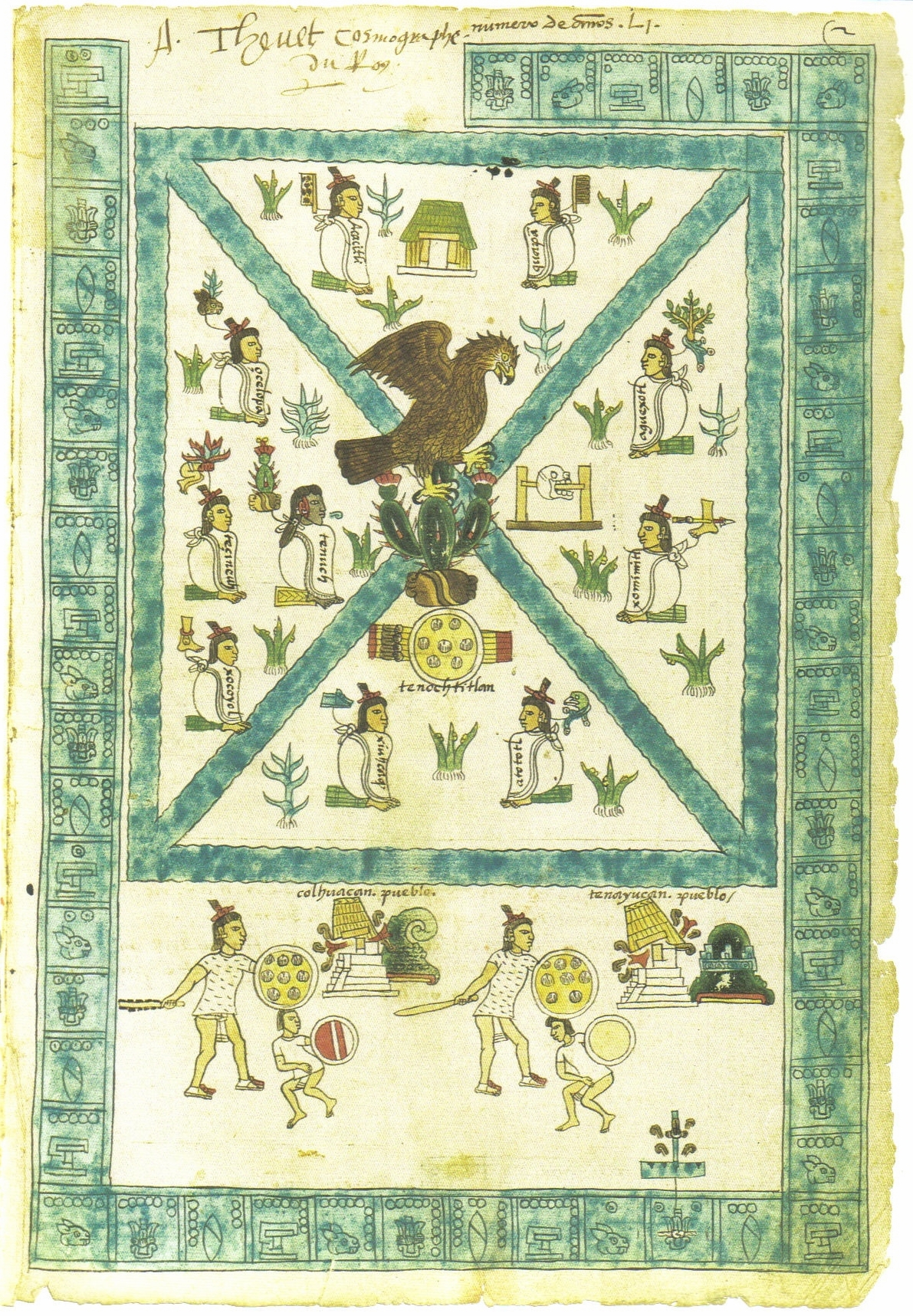 higher-res version of Image:Codex Mendoza folio 2r.jpg scanned from a book